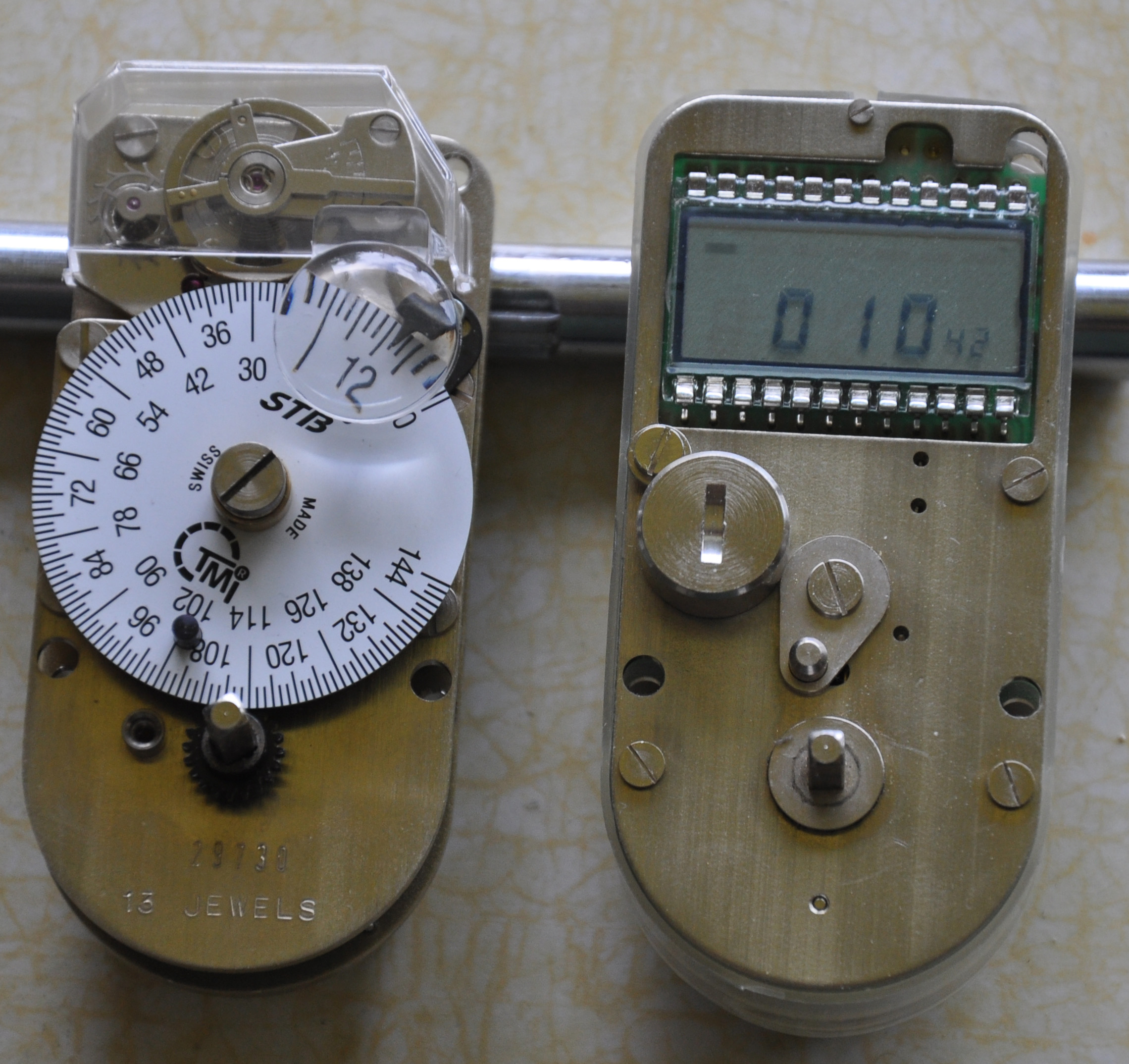 Aclassical Time lock besides an electronic one